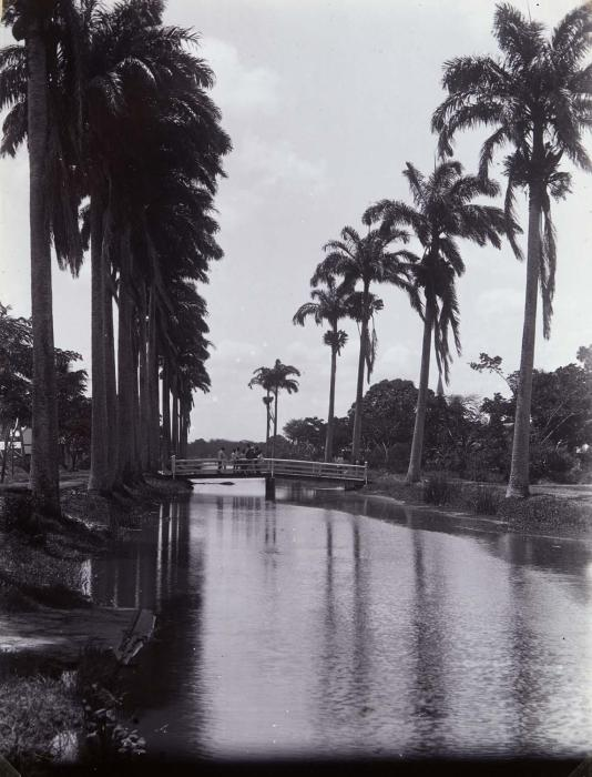 Bridge across a canal with king palm trees on both sides